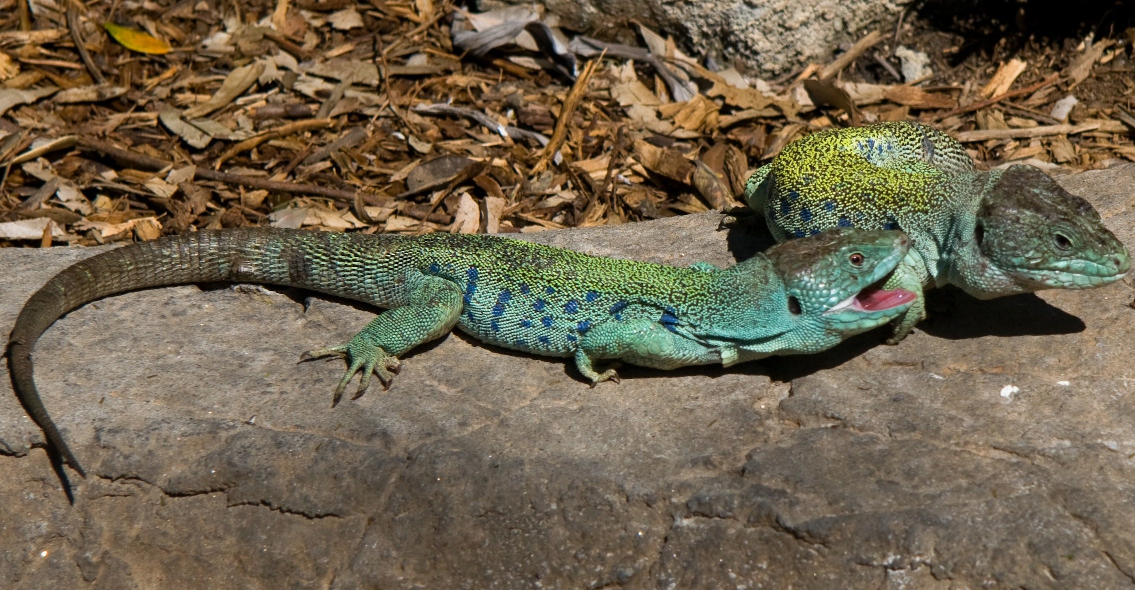 Ocellated Lizards (Timon lepidus) in San Diego Zoo